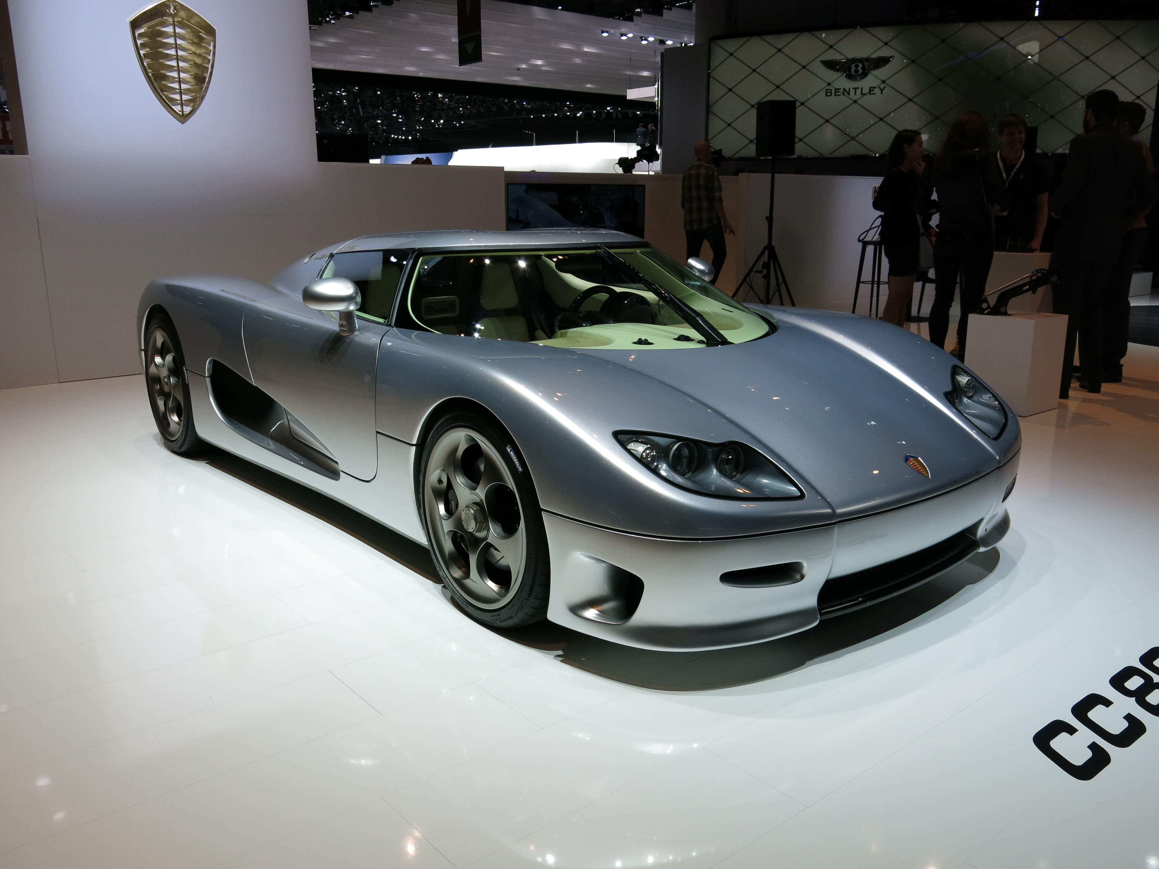 Geneva Motor Show 2015 (photo taken on the first press day)